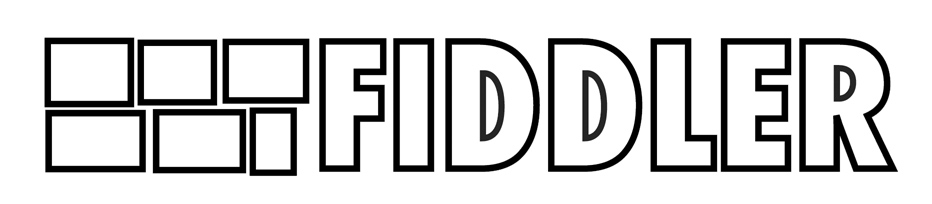 This is one of the Logos originally used by Fiddler Records